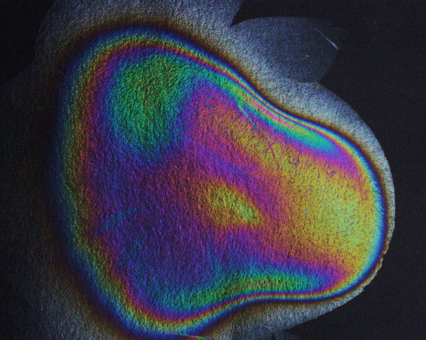 Interference on layer of lacquer (nail polish)